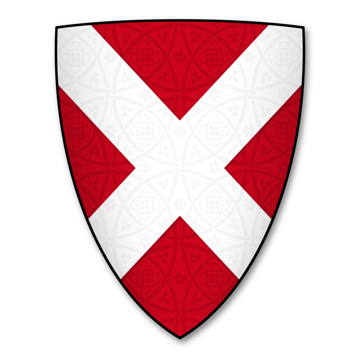 Coat of Arms - Neville, Earls of Westmorland, and Barons Neville of Raby. Blazon: Gules, a saltire Argent.